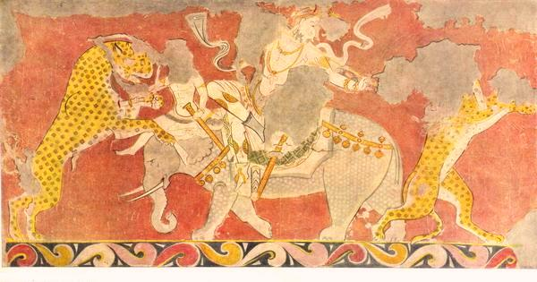 Varakhsha painting, 6th century